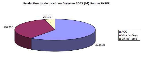 Types of wines in Corsica